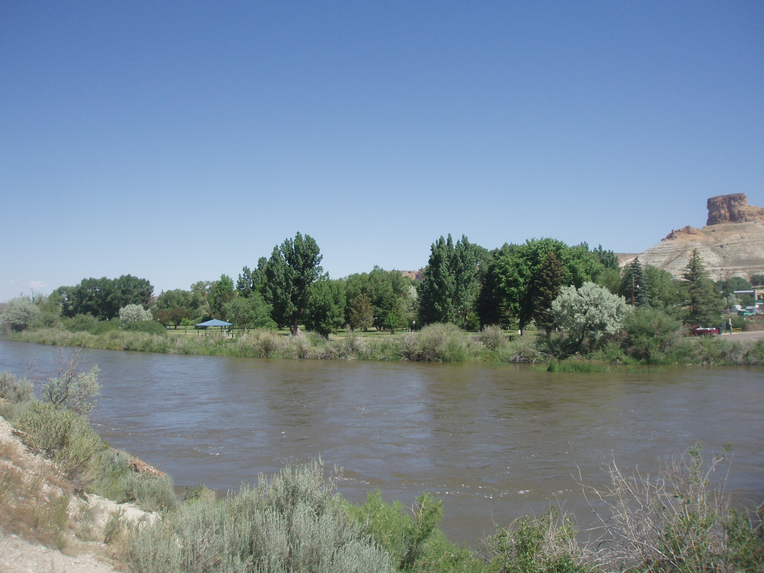 Expedition Island, a National Historic Landmark in Green River, Wyoming, United States, is a small island in the Green River. Now a city park, Expedition Island is recognized as the launching point for John Wesley Powell's 1869 and 1871 expeditions to explore the Colorado River and Grand Canyon.